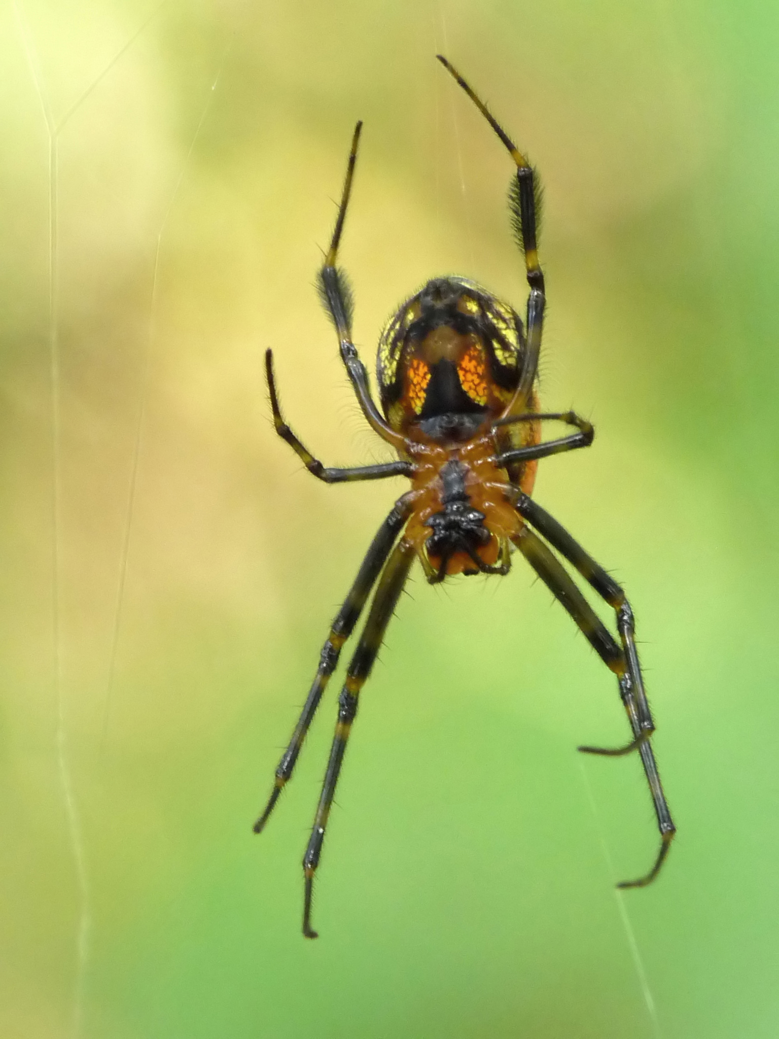 Opadometa fastigata, Pear-Shaped Leucauge, is a Long-jawed orb weaver (Tetragnathidae family), found in India to Philippines, Sulawesi. They are elongated spiders with long legs and chelicerae. They are orb web weavers, weaving small orb webs with an open hub and few, wide-set radii and spirals. The webs have no signal line and no retreat. Members of the species Leucauge silvery or golden spots on the abdomen. The web is a large horizontally-placed orb structure with a diameter of more than a metre. The entire web is often suspended by several long strands of silk attached to branches and leaves nearby. This species is separated from other Leucauge spiders by its pear-shaped abdomen and its unique fourth leg. In addition to the two rows of curved hairs (characteristic of Leucauge), this leg also has a thick brush of spines which are not present in most other species of Leucauge.